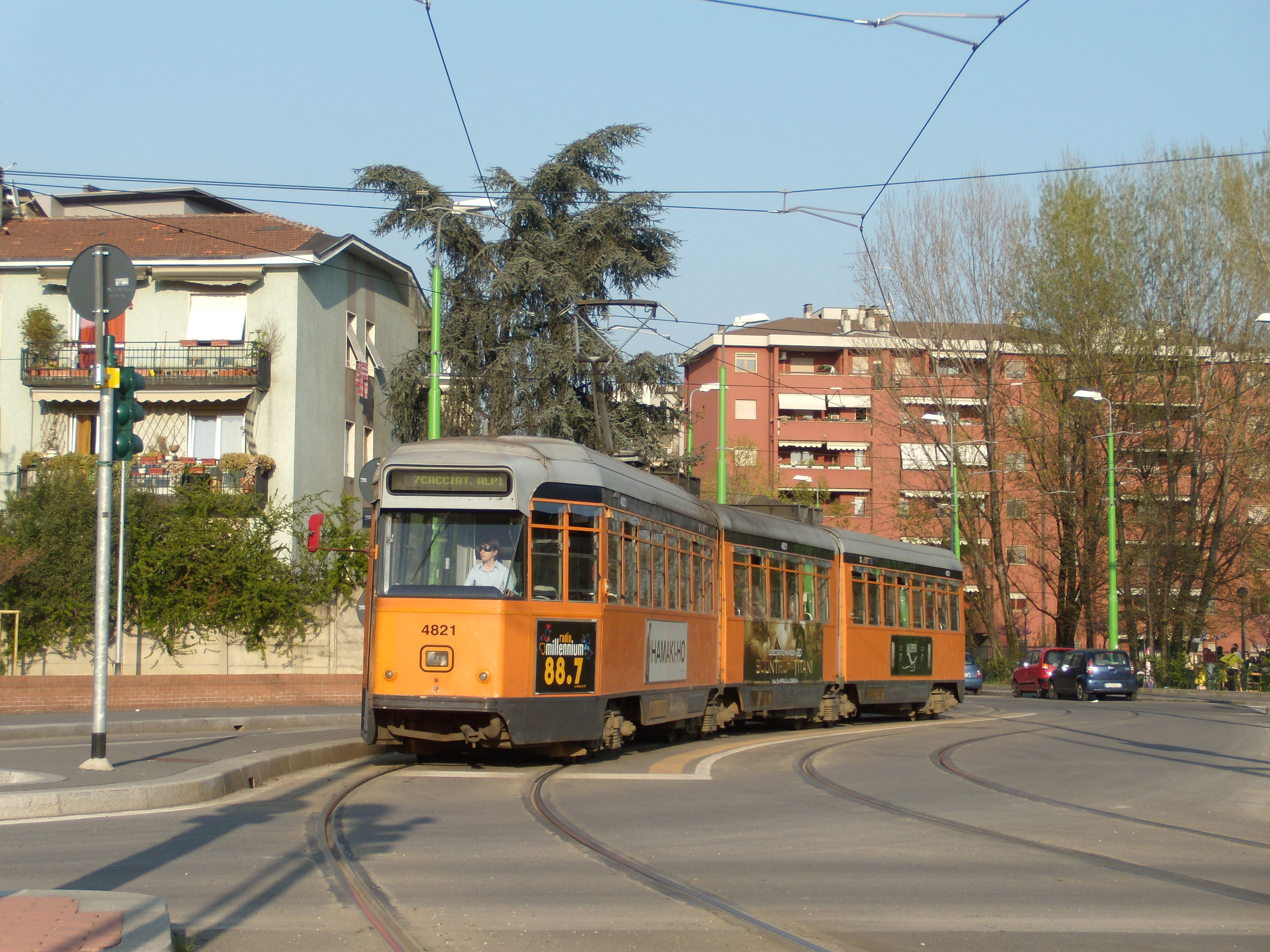 4821 in via Anassagora, a Milano